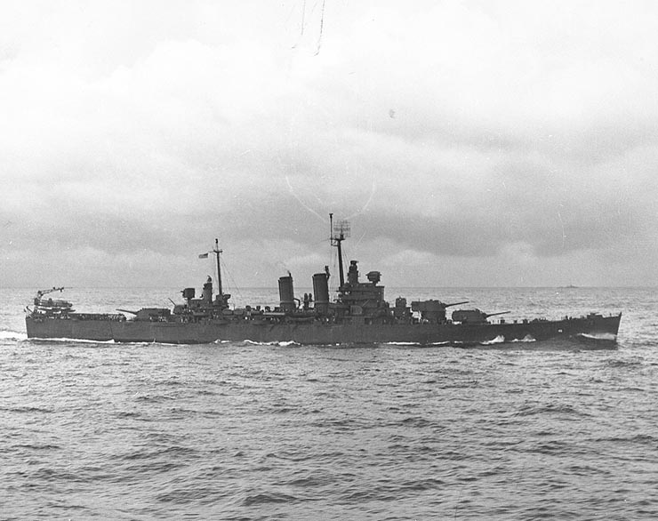 The U.S. Navy heavy cruiser USS Wichita (CA-45) underway at sea, 2 May 1944, during operations in the Central Pacific.